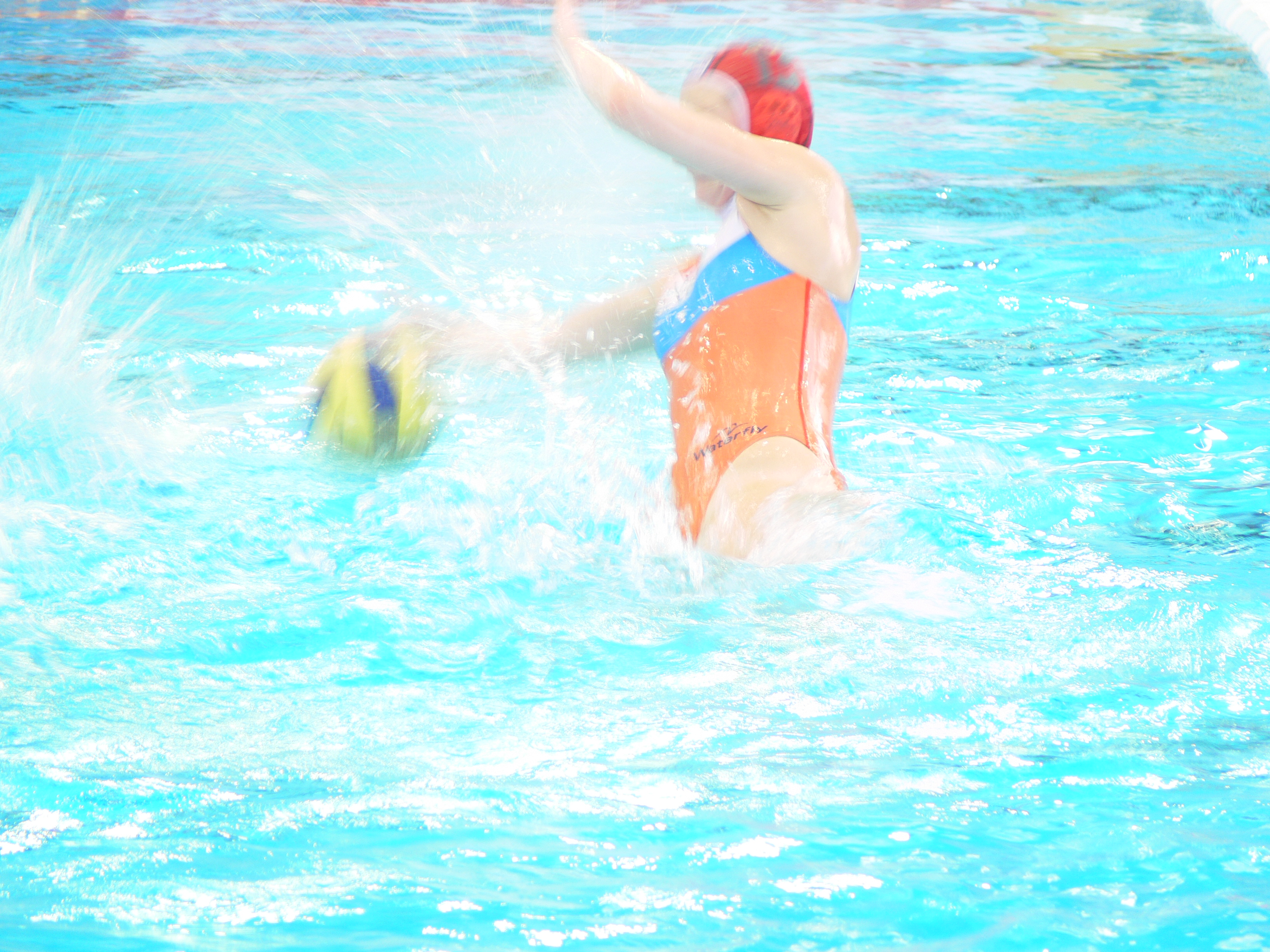 Female Goalkeeper blocking a shot